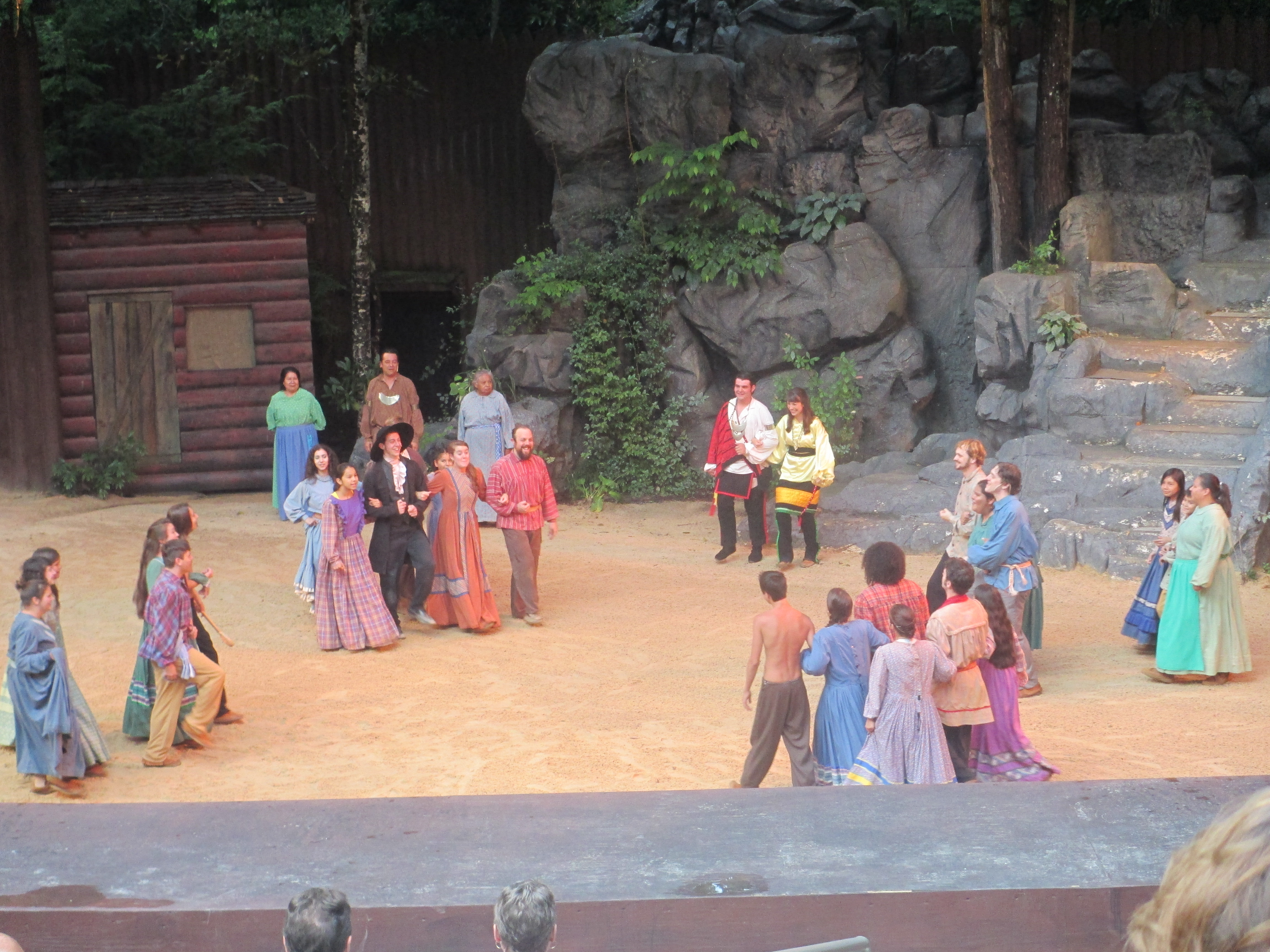 I took photo of "Unto These Hills" presentation with Canon camera.